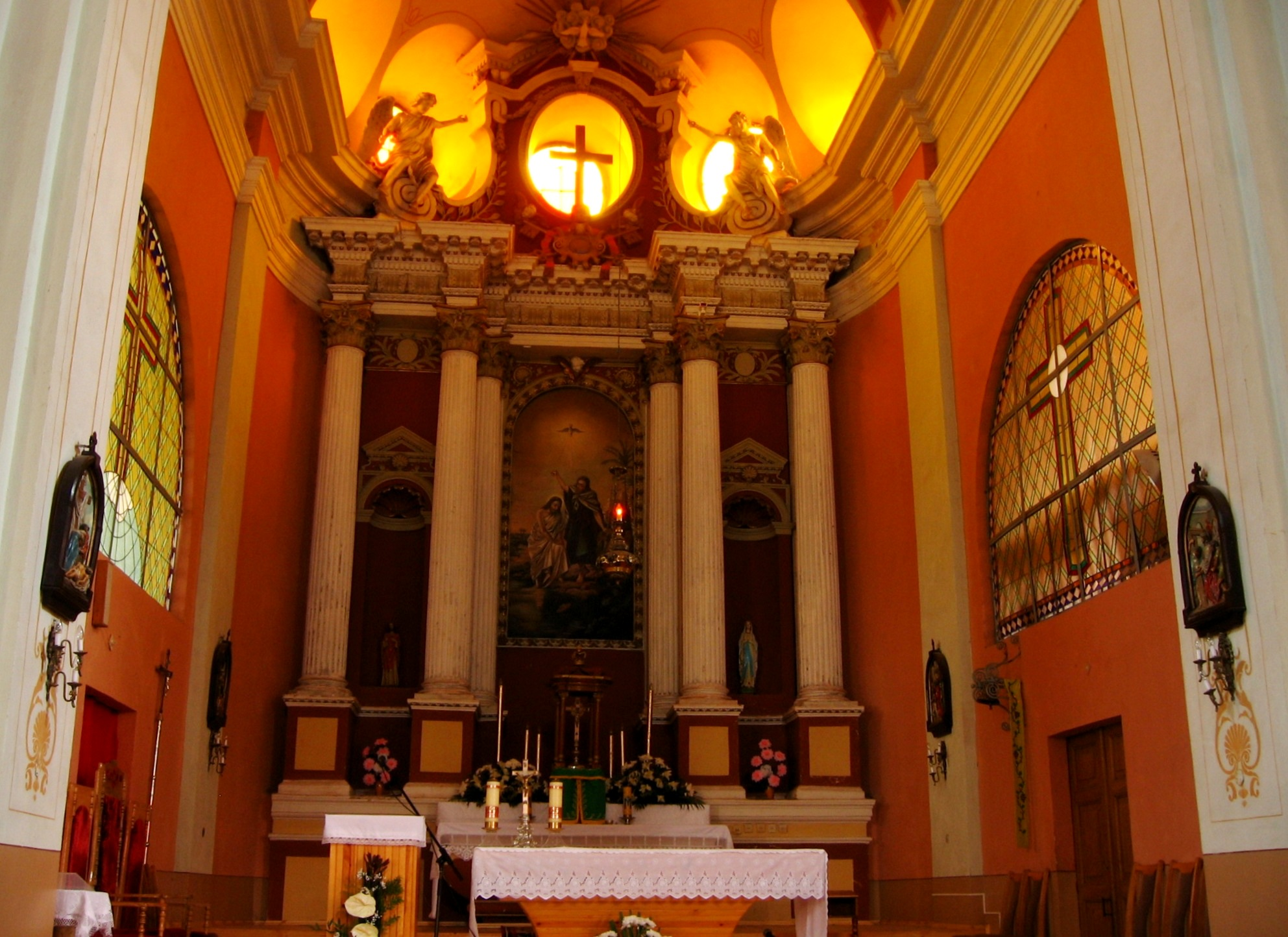 Catholic church of St. John the Baptist in Bieniakone, Belarus.